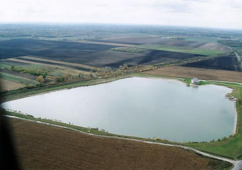 Ikrény, Hungary, aerialphotography